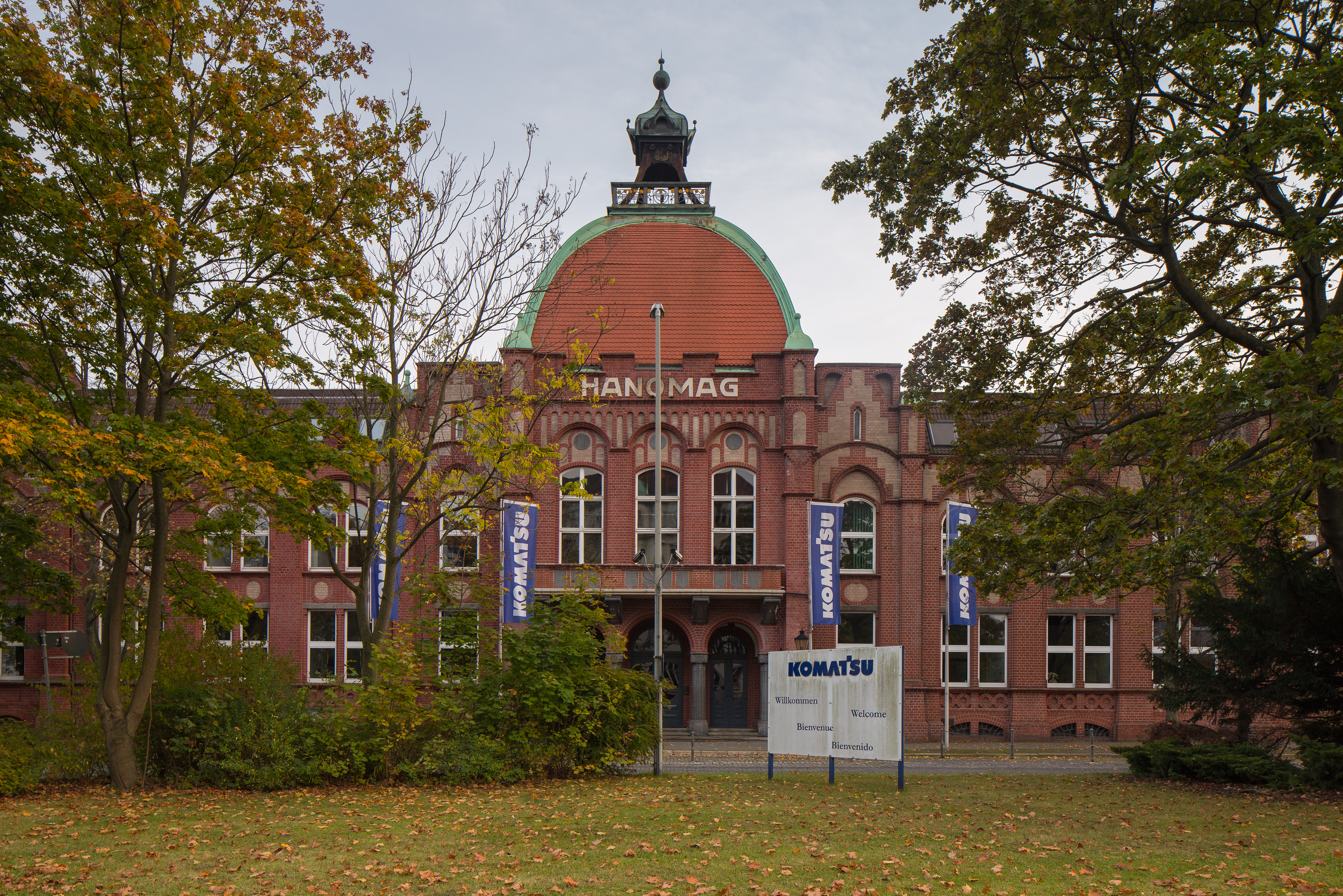 Directorate building of former Hanomag company located at Hanomagstrasse in Linden-Sued district of Hanover, Germany.